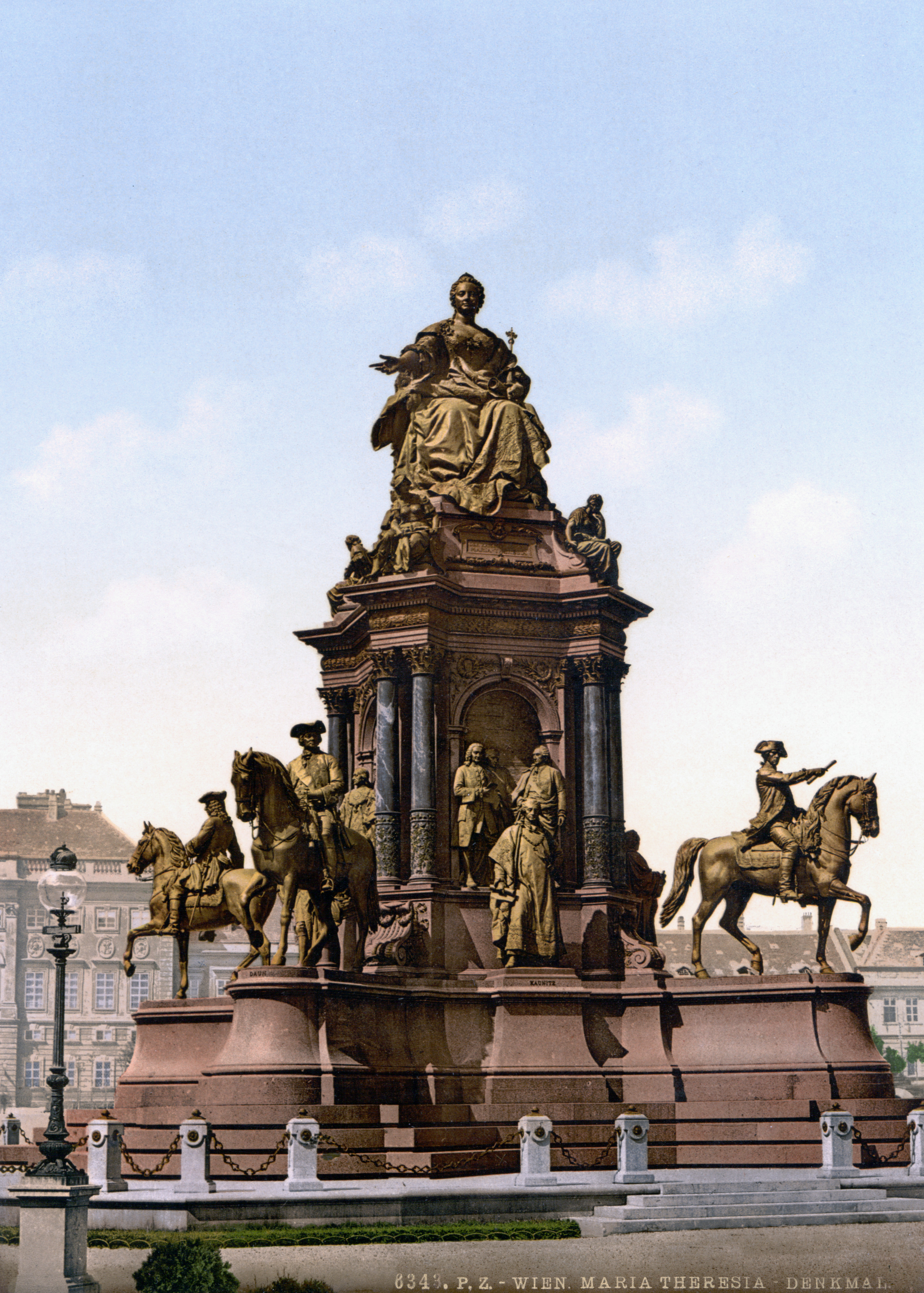 Maria Theresa Monument, Vienna, Austro-Hungary. Forms part of: Views of the Austro-Hungarian Empire in the Photochrom print collection.